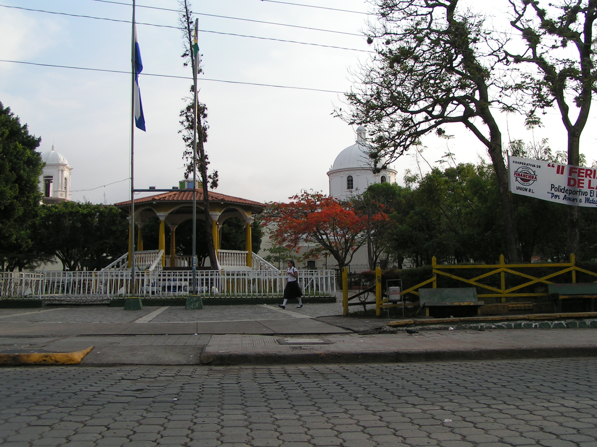 Child on way to school through Parque Morazan